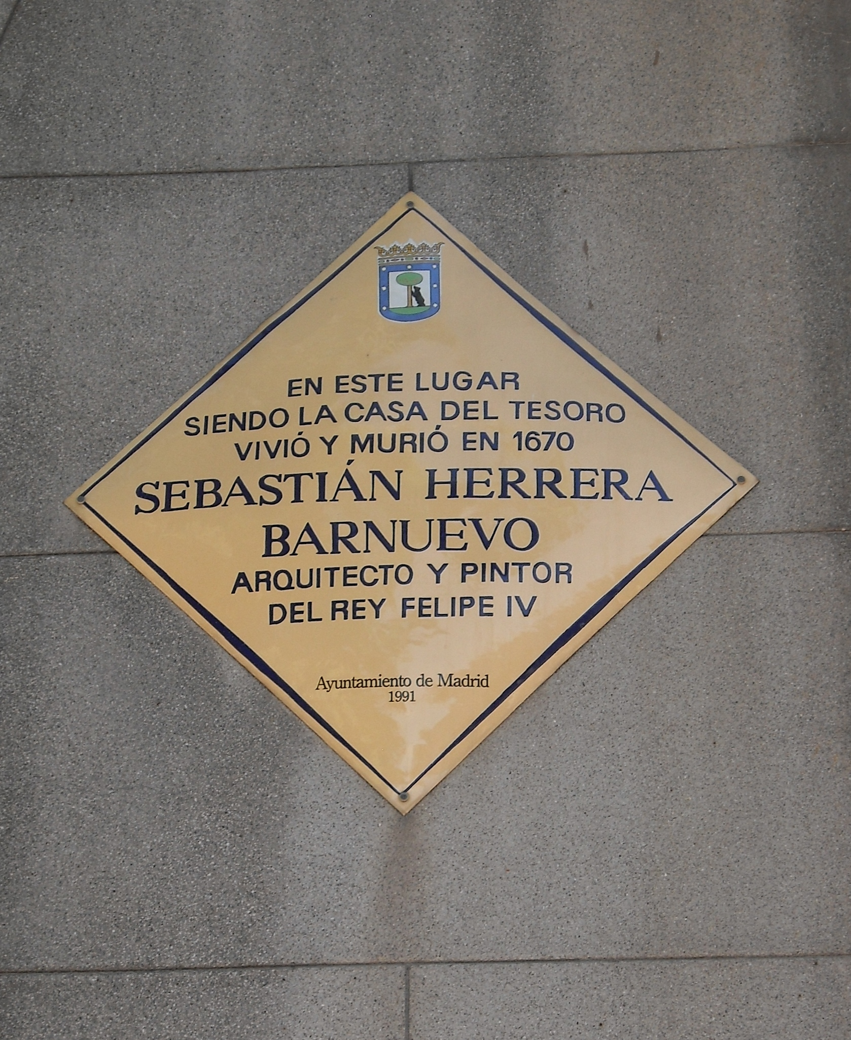 Memorial plaque for Sebastián Herrera Barnuevo at Plaza de Oriente, 3 in Madrid.